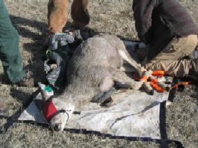 captured deer being prepared for testing for chronic wasting disease in Wind Cave National Park